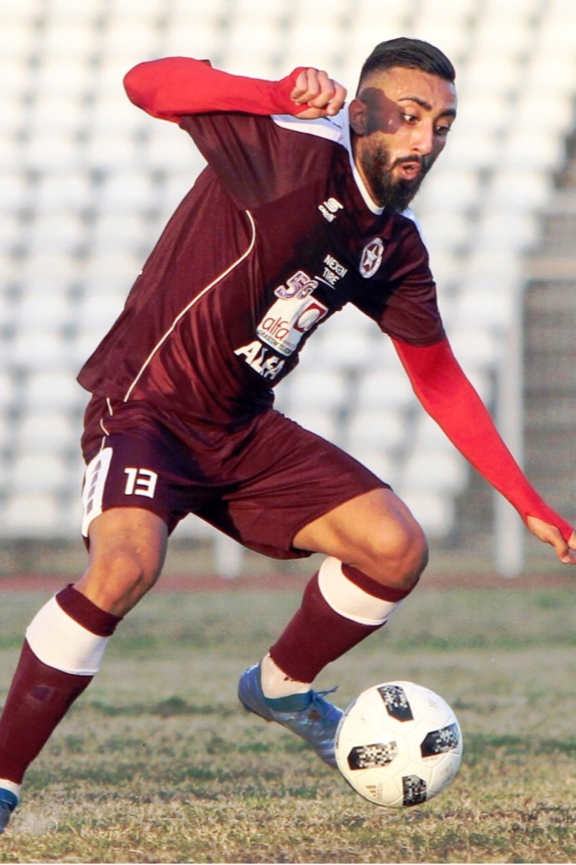 Yahya El Hindi during his debut match for Nejmeh SC against Racing Club Beirut.